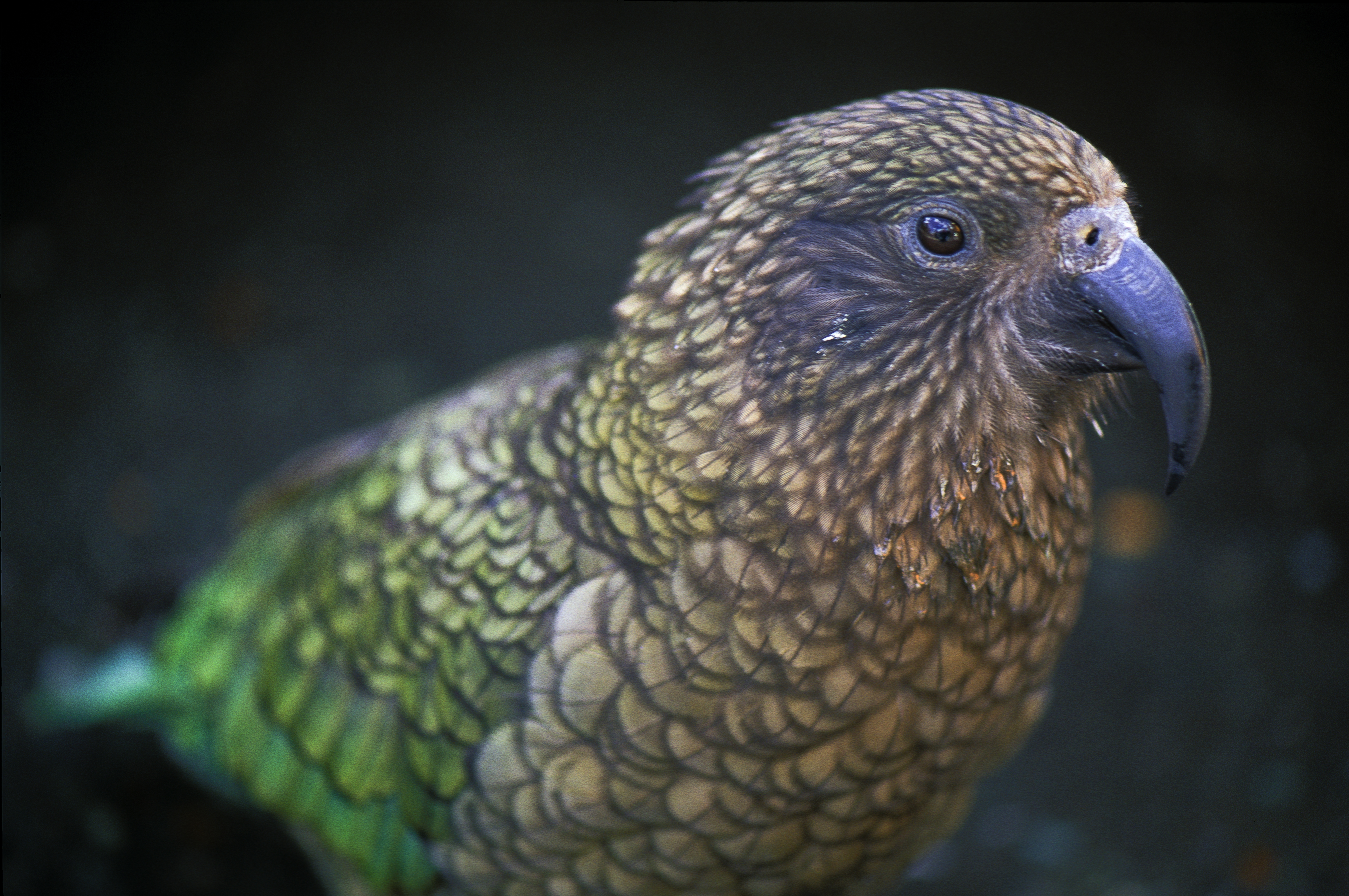 Adult Kea close-up, Milford Sound, New Zealand. Camera: Fuji Velvia 50, Nikon F6, Scanned with Nikon Super Coolscan 4000